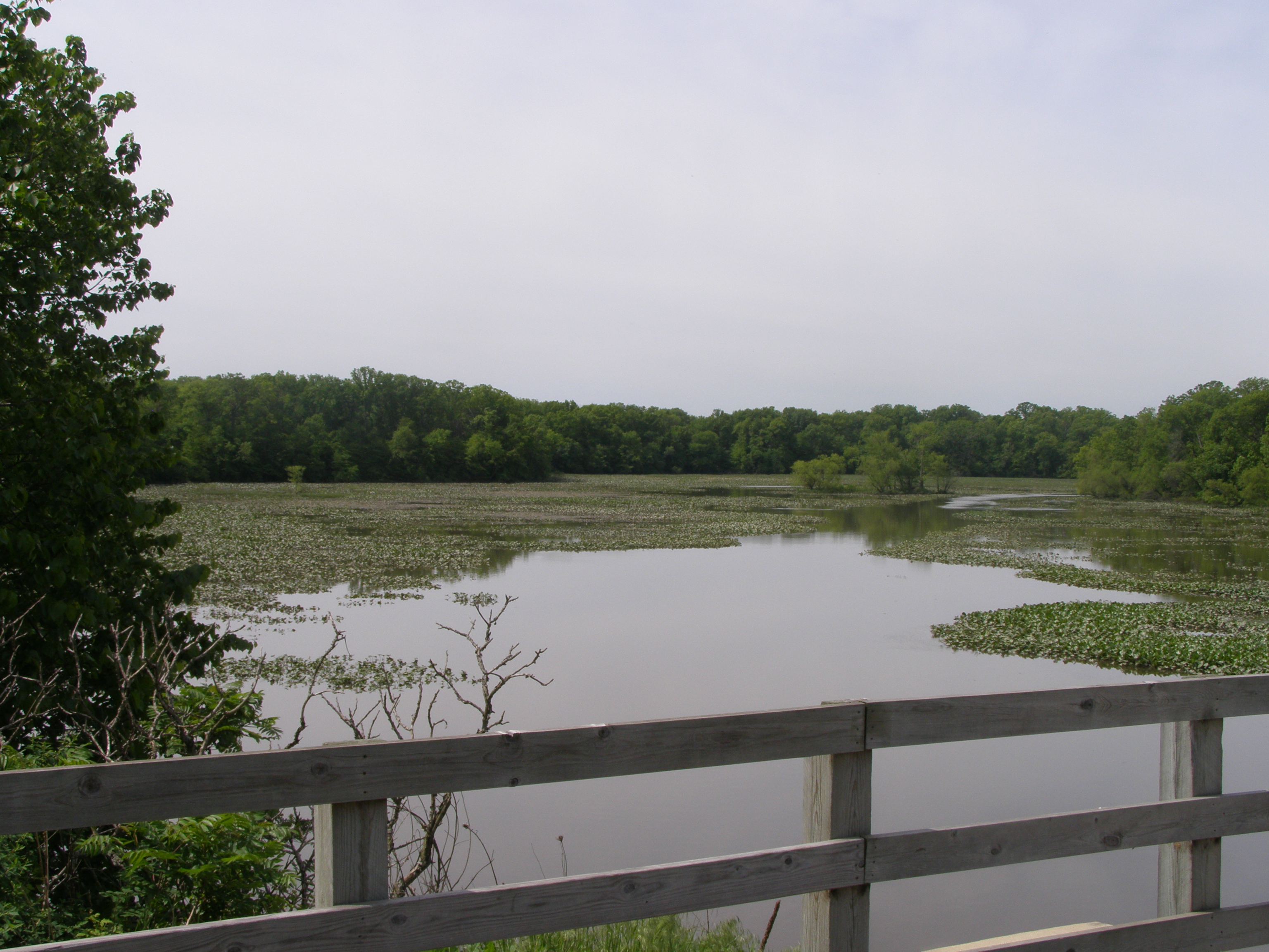 Lake George, next to Hobart Prairie Grove, Hobart, Indiana, a part of Indiana Dunes National Lakeshore.